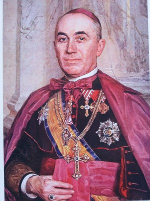 Portrait